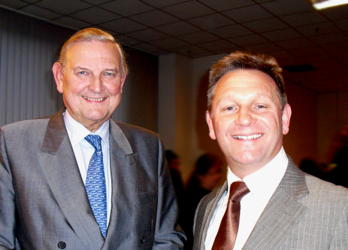 Dr. François-Xavier de Donnea with the Trade Diplomat Colin Evans